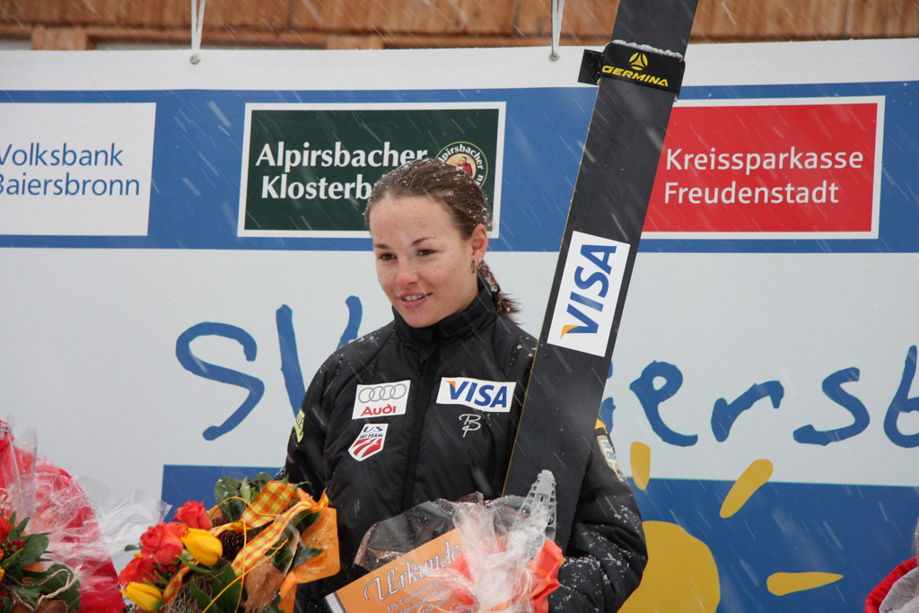 American ski jumper Lindsey Van at the flower ceremony after the Continental Cup competition in Baiersbronn 2009.